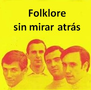 Cuarteto Zupay. Argentina. Folk group. Cover of their first álbum = "Folklore sin mirar atrás". Members from left to right: Juan José García Caffi, Eduardo Vittar Smith, Aníbal López Monteiro, Pedro Pablo García Caffi. Note: The typography isn't the original one.